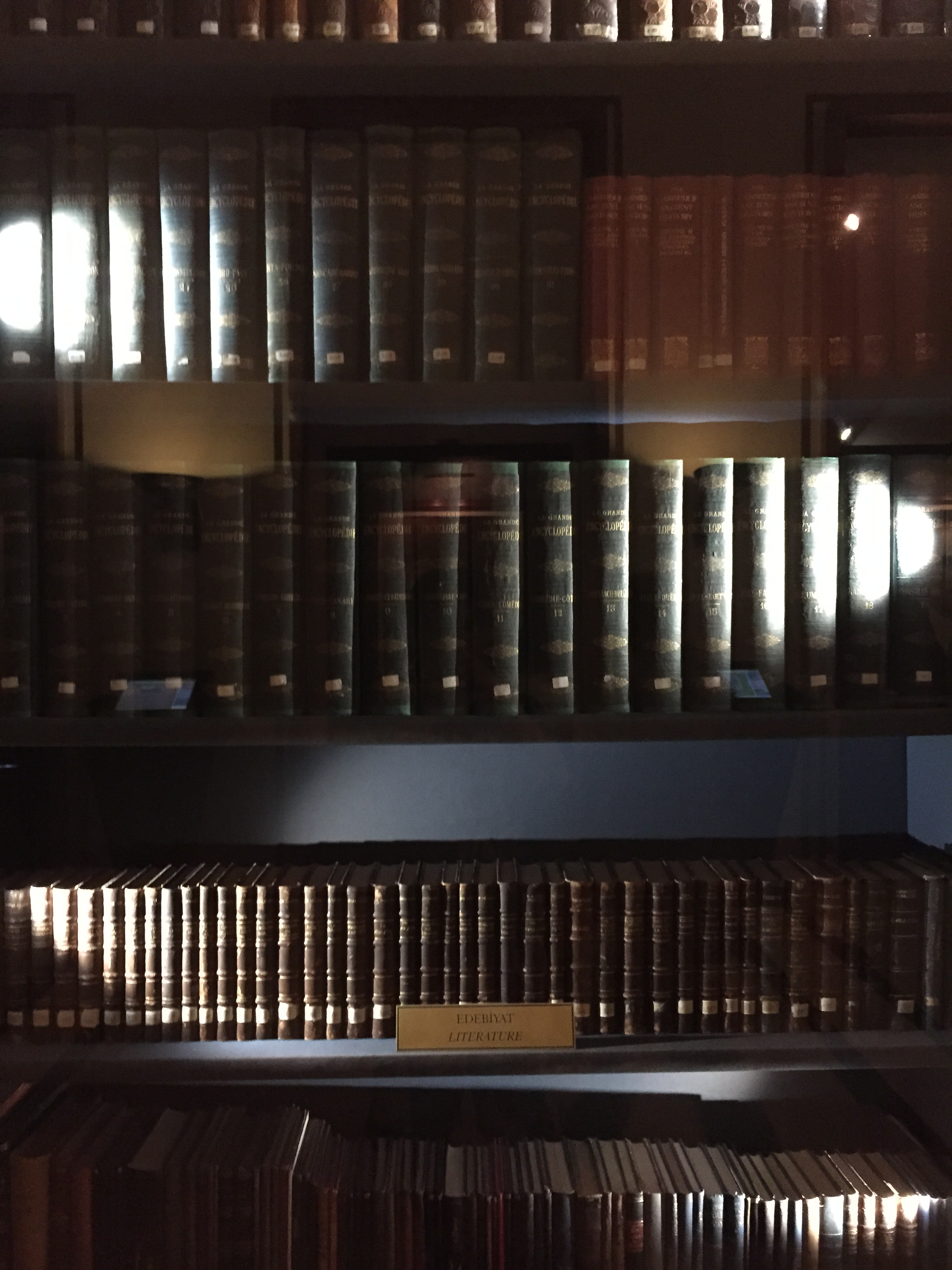 Anıtkabir (literally, "memorial tomb") is the mausoleum of Mustafa Kemal Atatürk, the leader of the Turkish War of Independence and the founder and first President of the Republic of Turkey